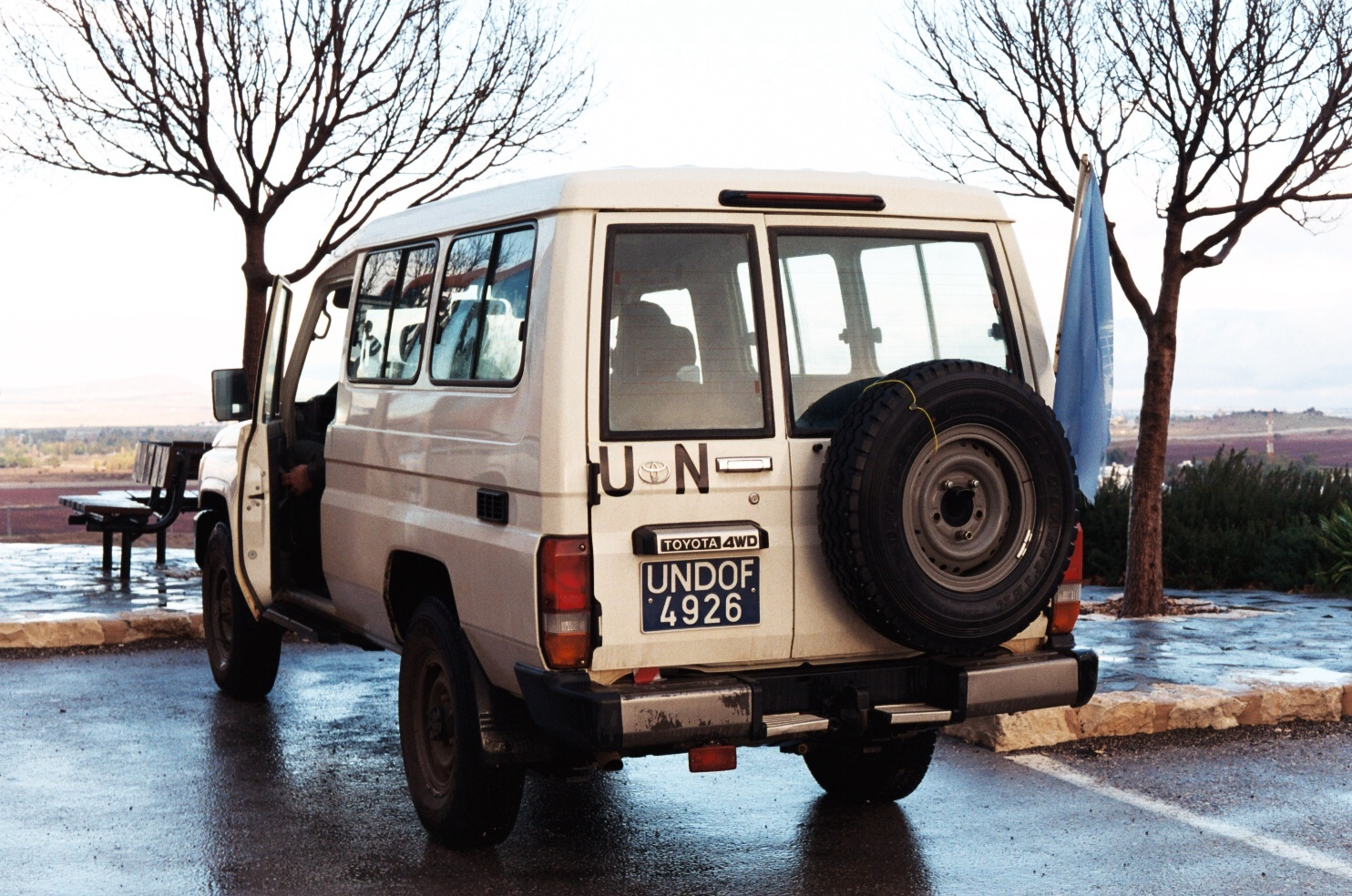 A late-1980s Toyota Land Cruiser operated by peacekeepers from the United Nations Disengagement Observer Force (UNDOF) parked near the Druze village of Majdal al-Shams in the Israeli-occupied Syrian Golan, displaying UNDOF plates and a UN flag, January 2012